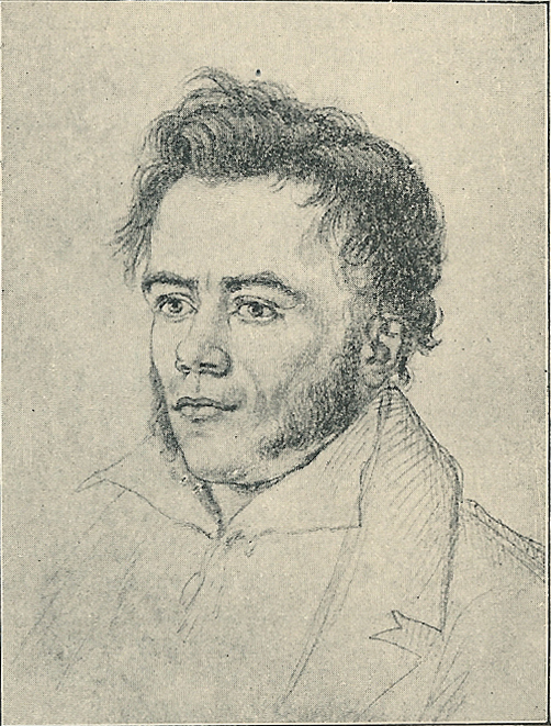 Christian Molbech. Efter en tegning af A. Jensen.